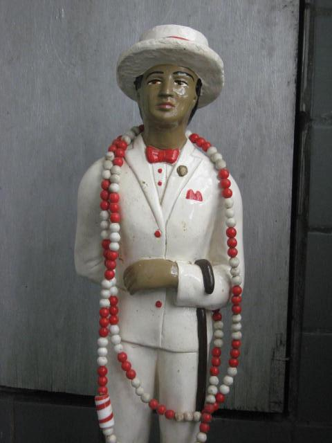 Malandro